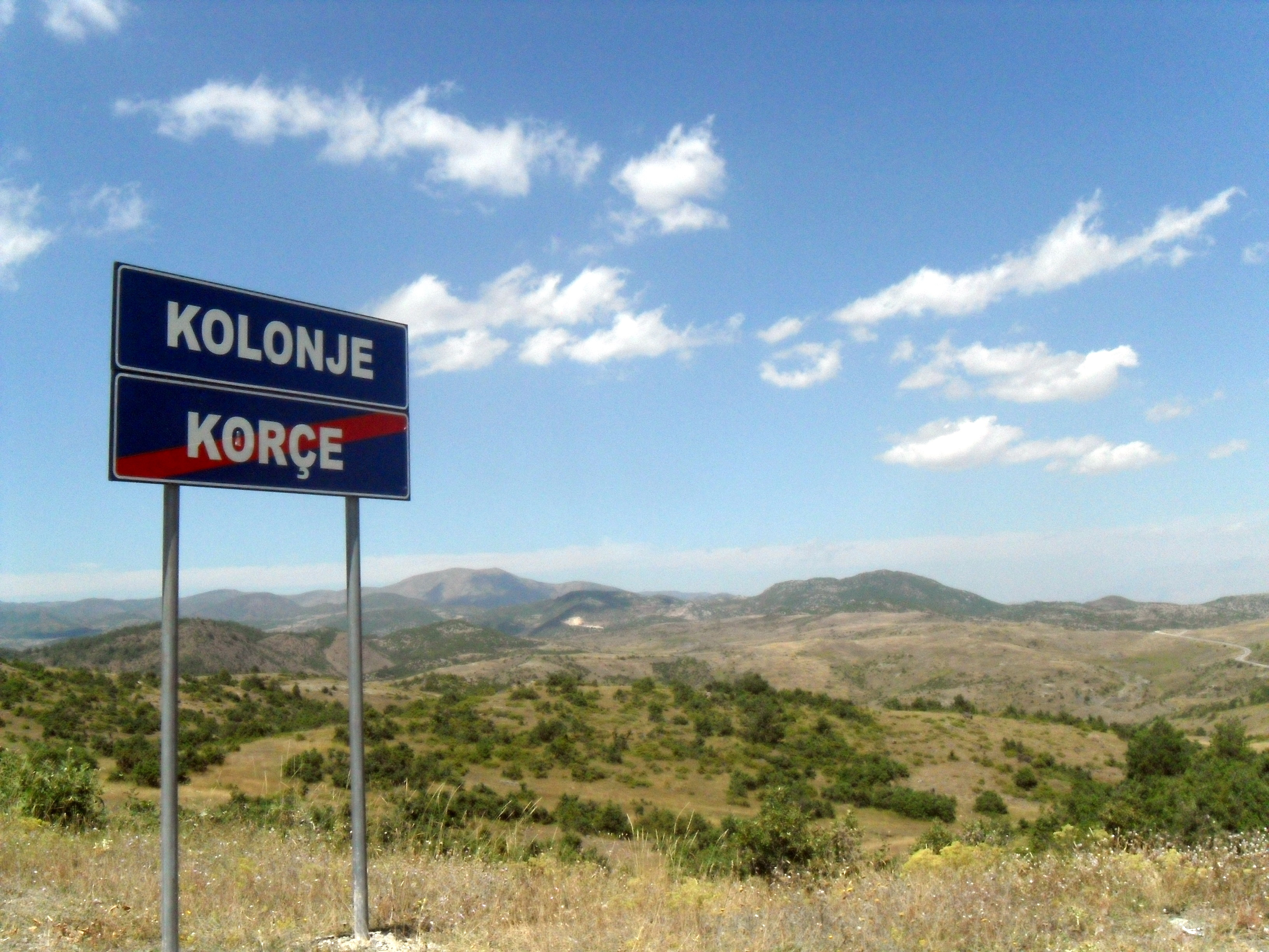 Road from Korçë to Ersekë